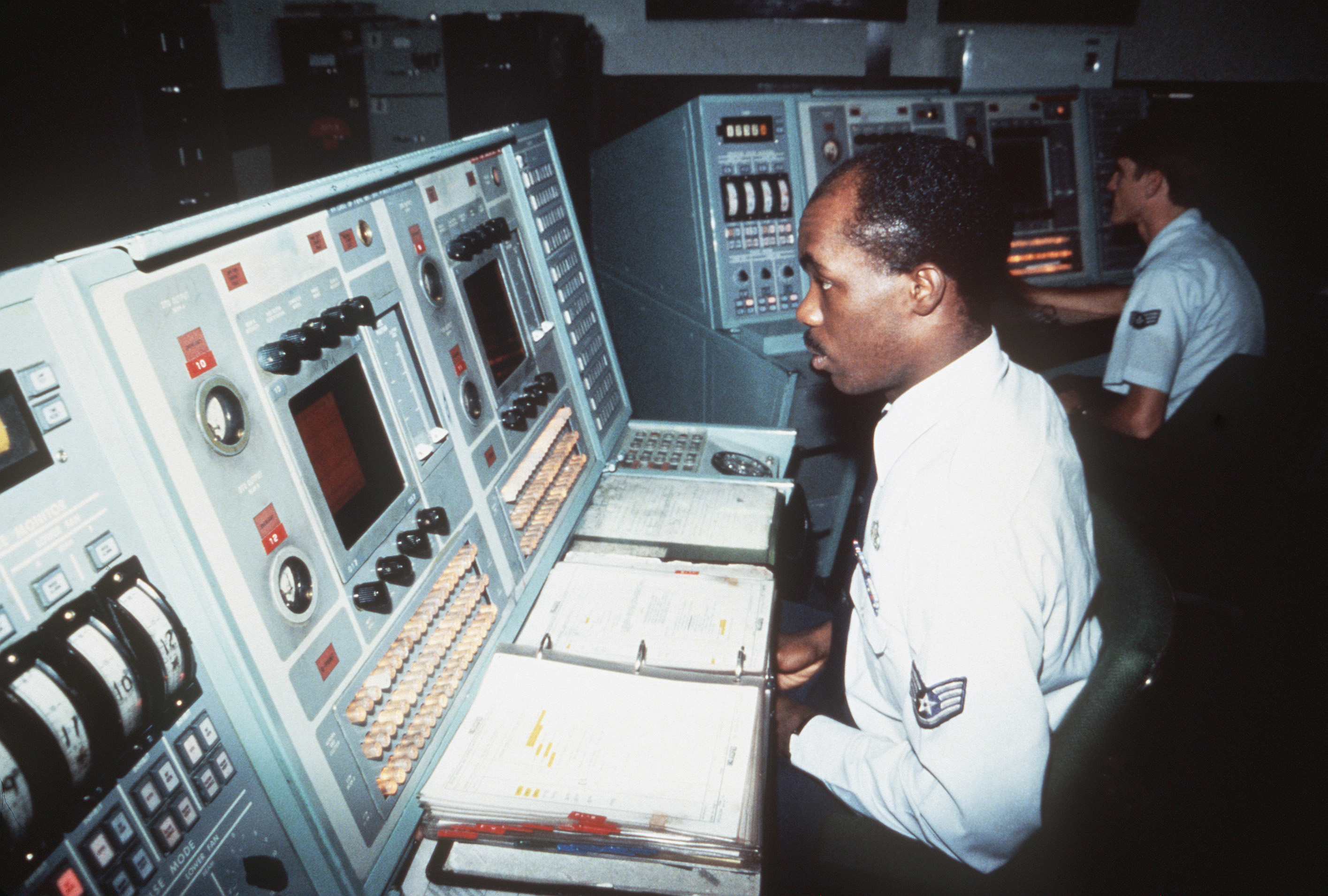 Air Force technicians work at tracking monitors in the Tactical Operations Room on the BALLISTIC MISSILE EARLY WARNING System site.